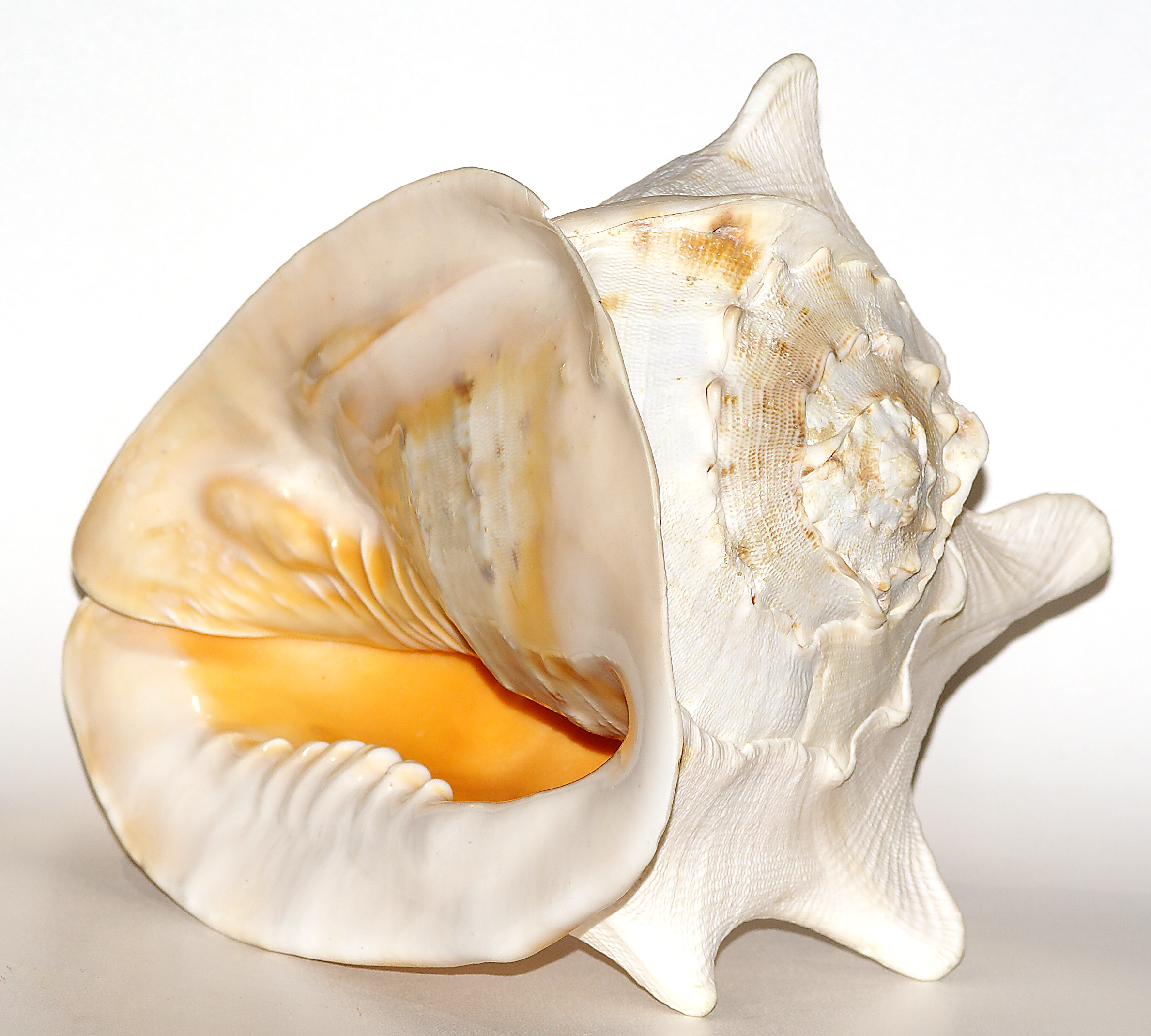 The shell of Cassis cornuta.